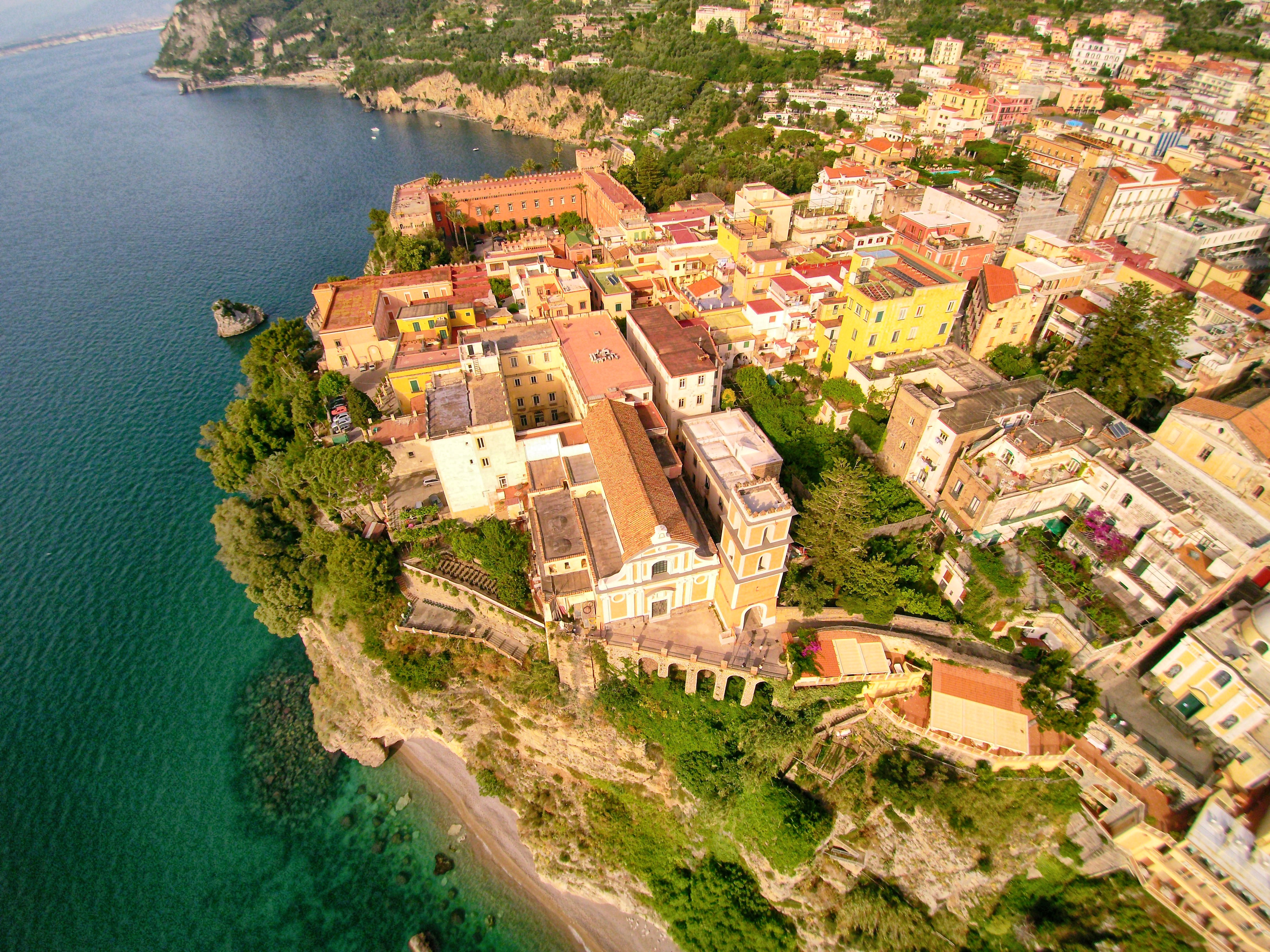 Church of Santissima Annunziata in Vico Equense (Neaples) seen from above with a drone.